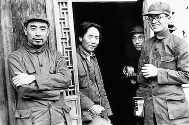 1937 Mao (middle) Zhou (left) Qing Bangxian (right) in Yan'an